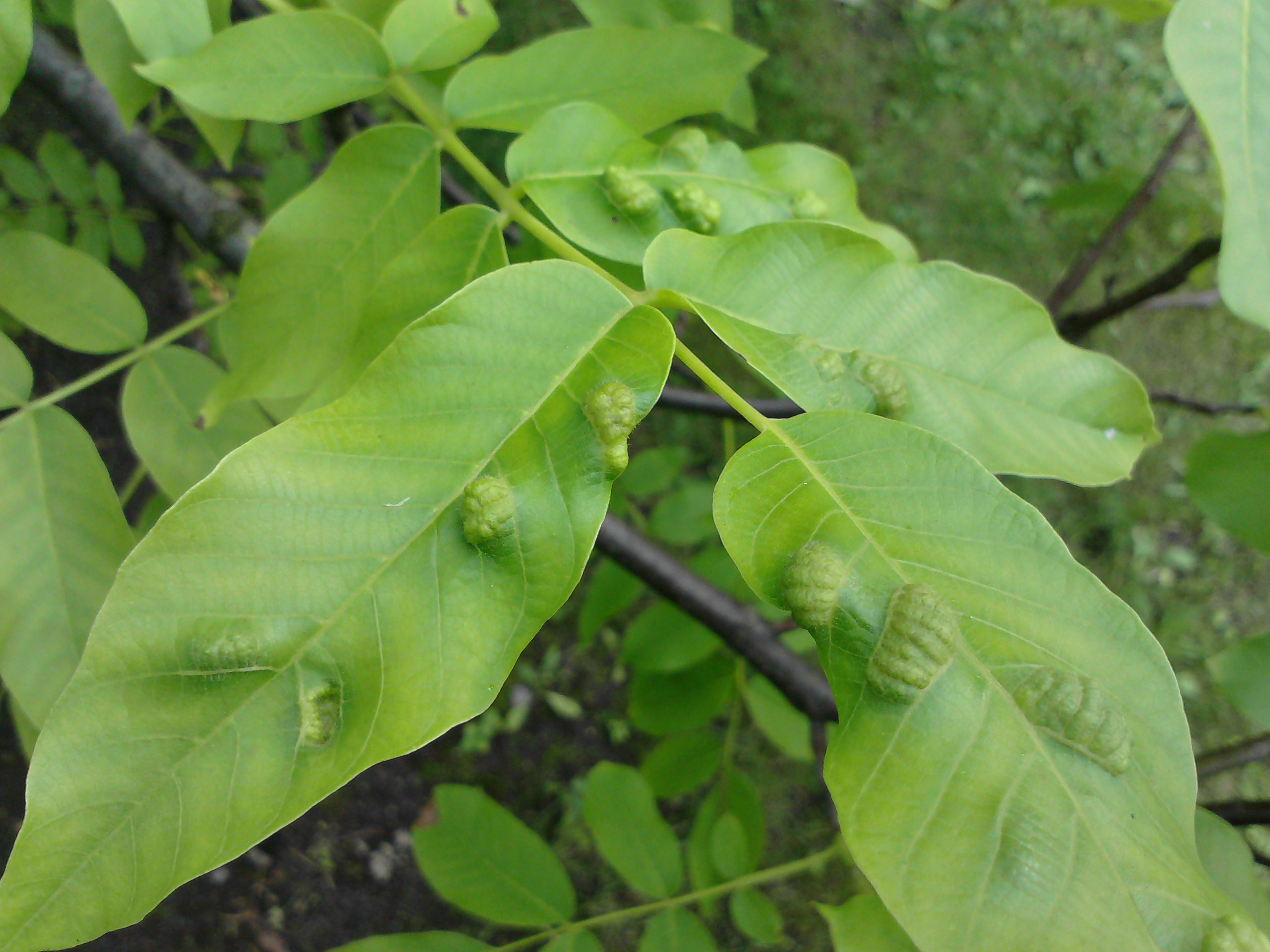 Aceria erinea on Juglans regia